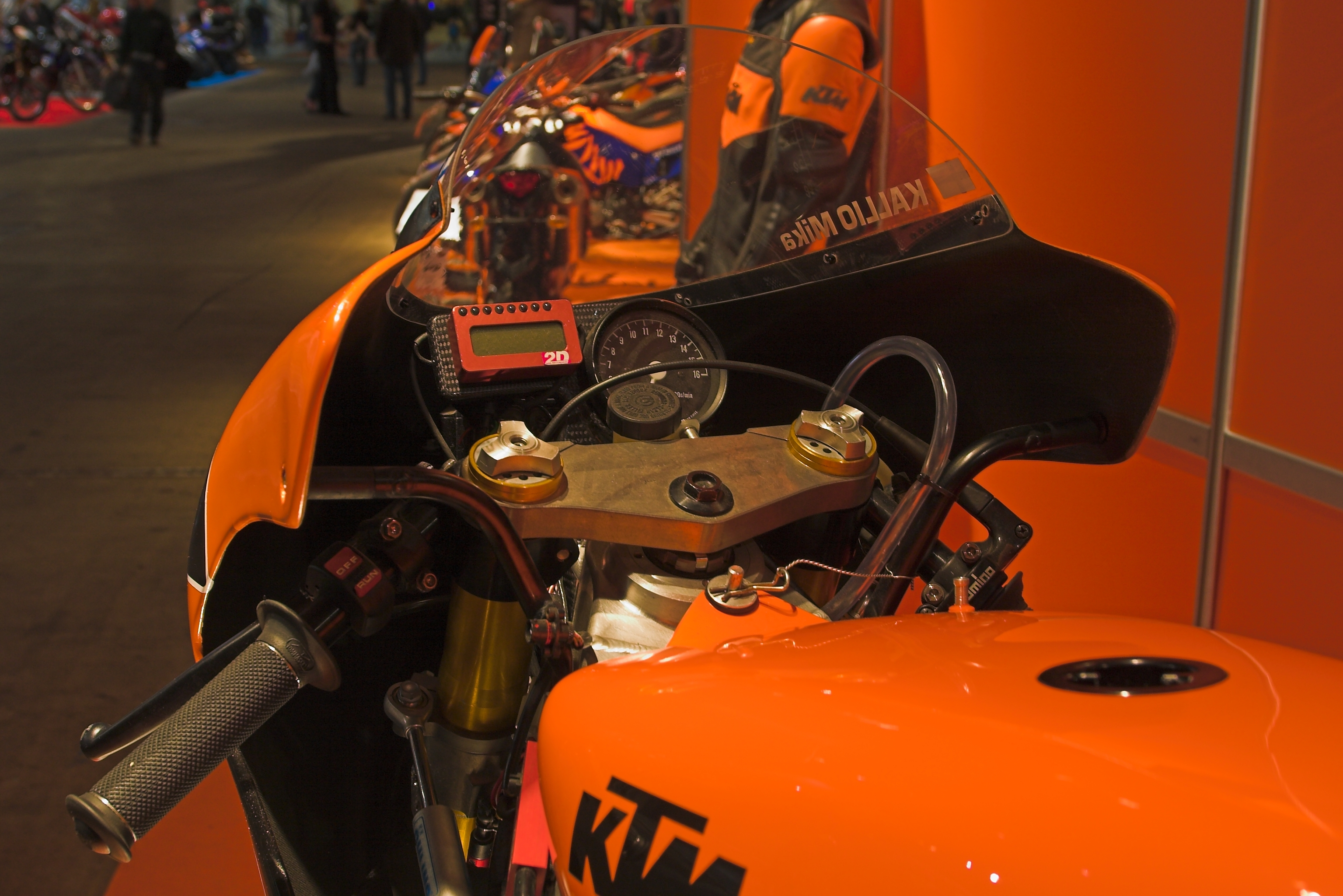 Cockpit of racing motorcycle (KTM 125). Photo by Thermos.